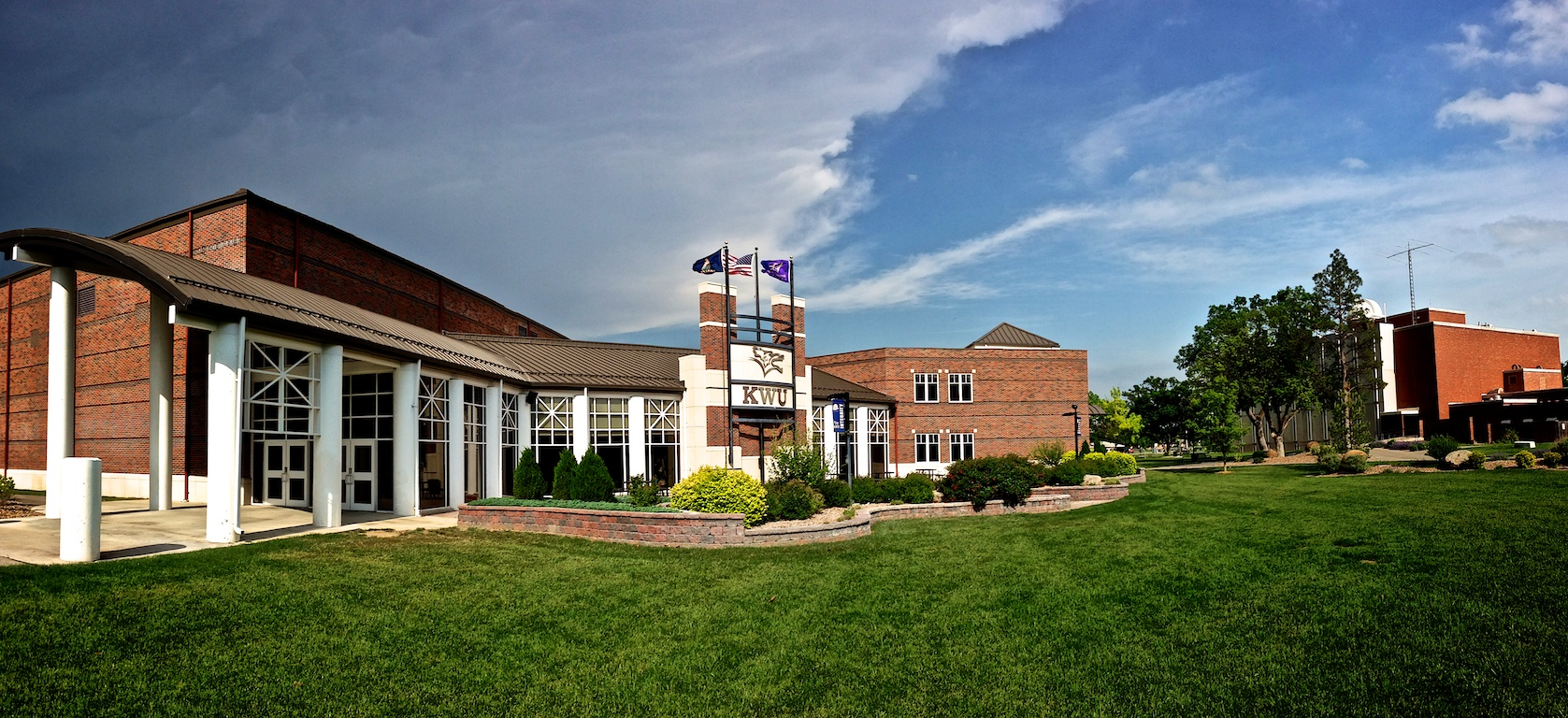 Hauptli Student Center at Kansas Wesleyan University in Salina, Kansas